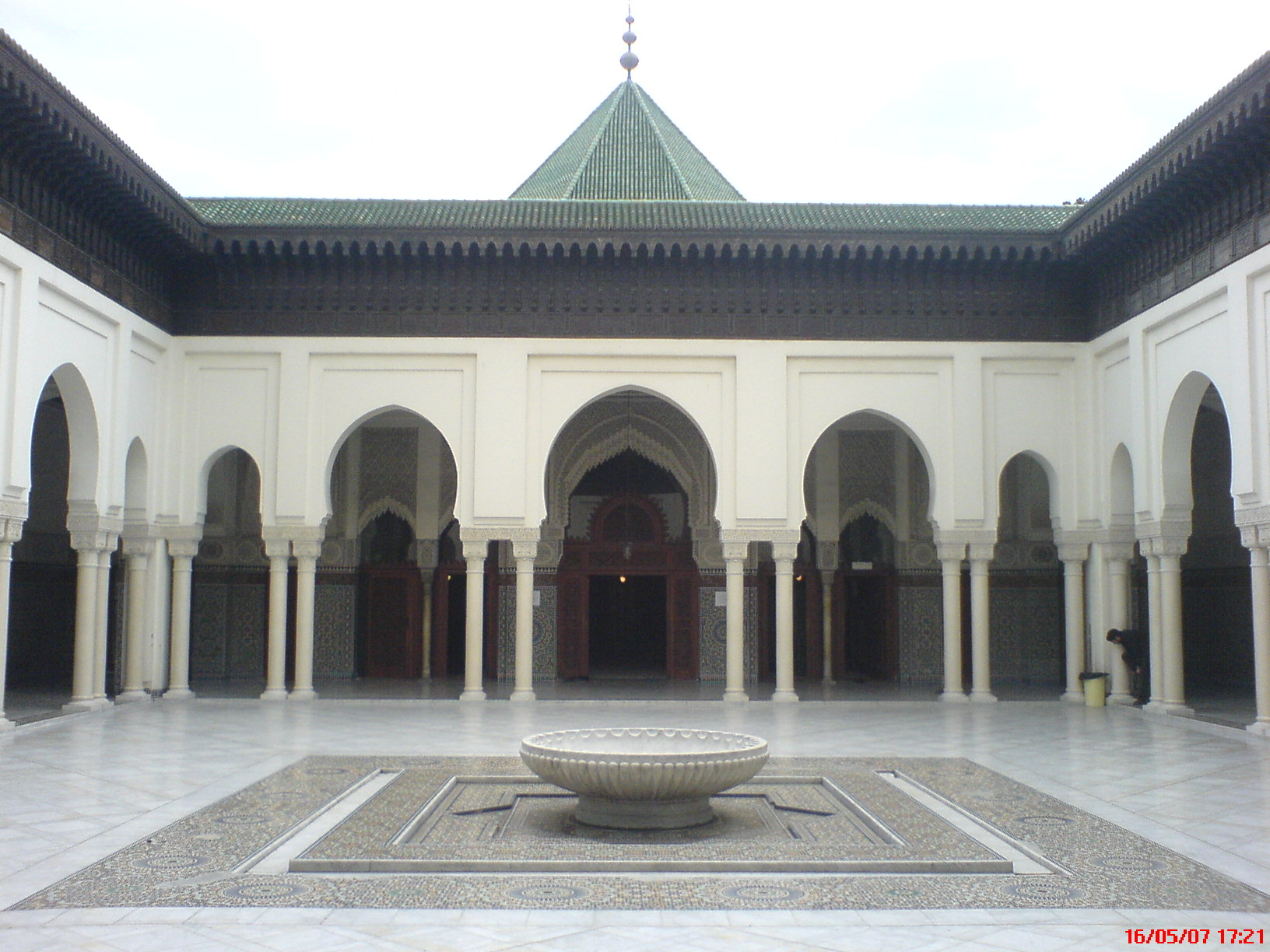 The central Islamic Courtyard with fountain of the Mosquée de Paris.